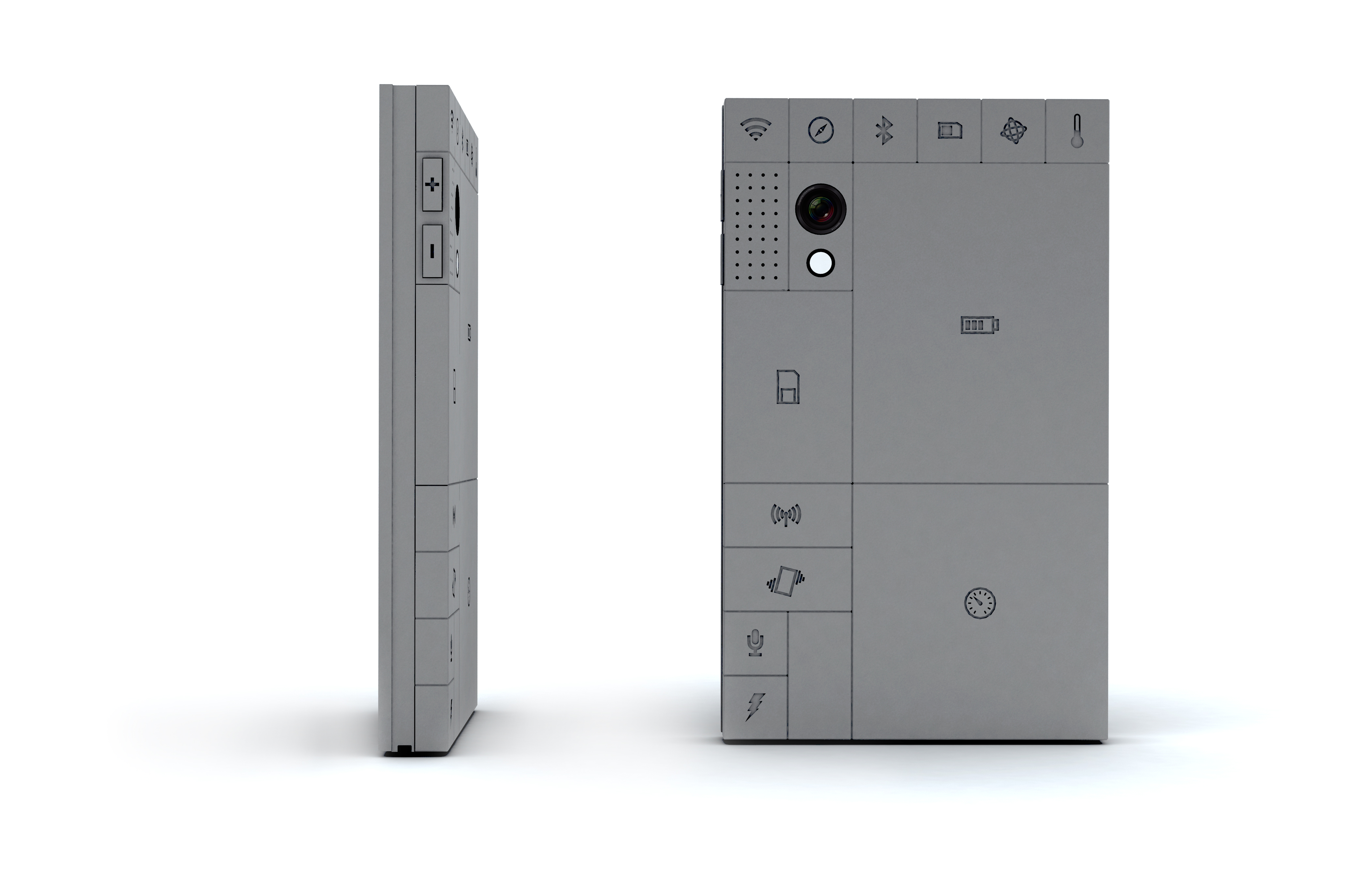 Phonebloks front side